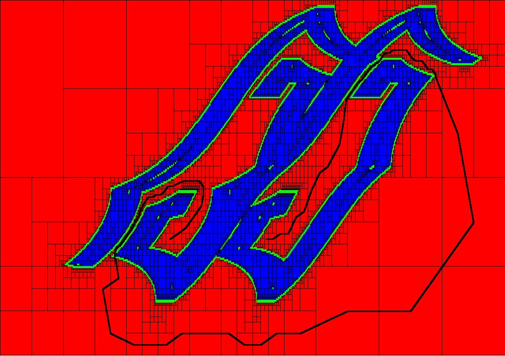 Feasible path obtained in the configuration space after a decomposition with boxes